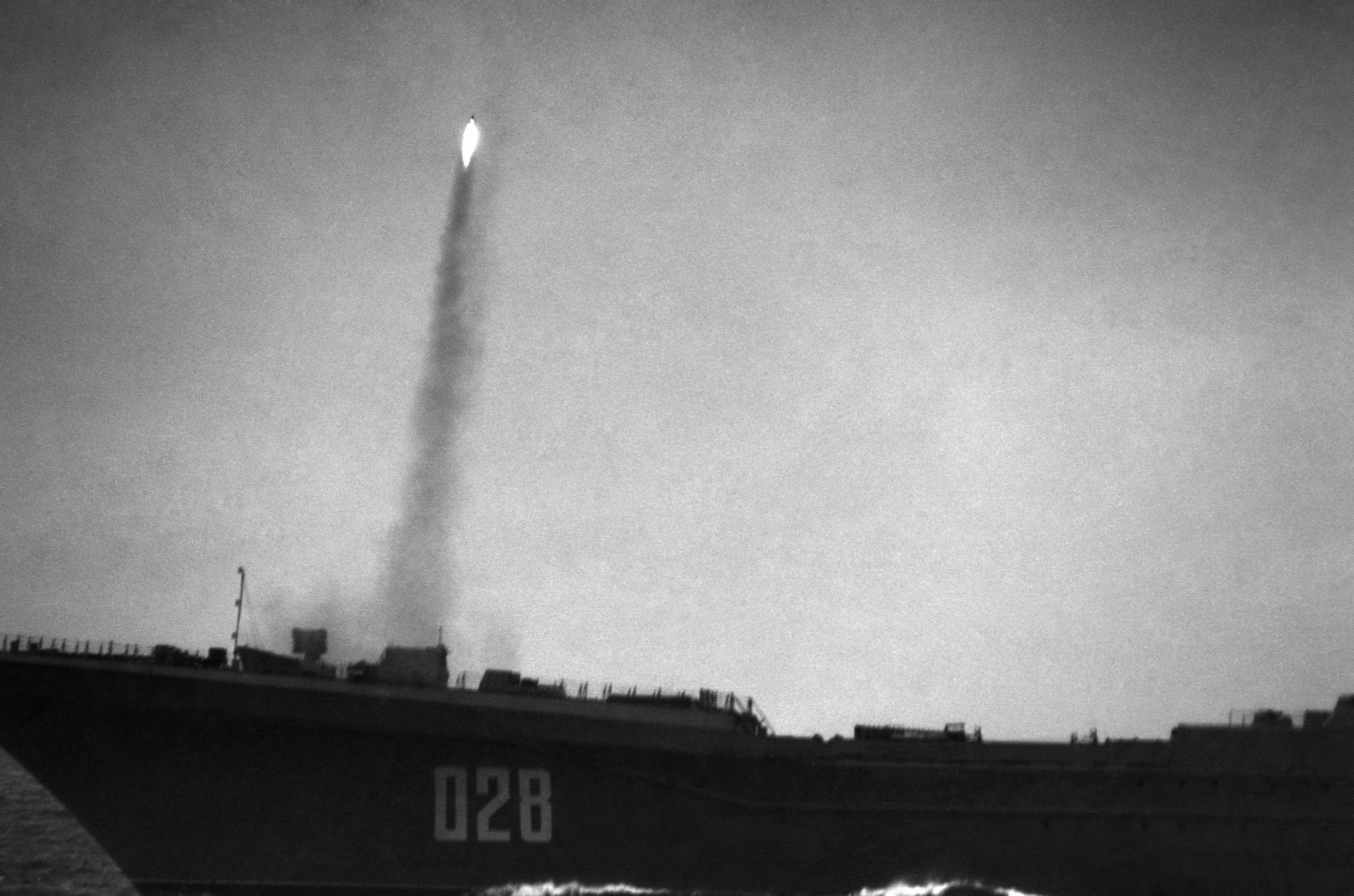 A port view of the bow of the Soviet nuclear-powered guided missile cruiser FRUNZE as a missile is launched from the SA-N-9 vertical missile launcher in the Baltic Sea.